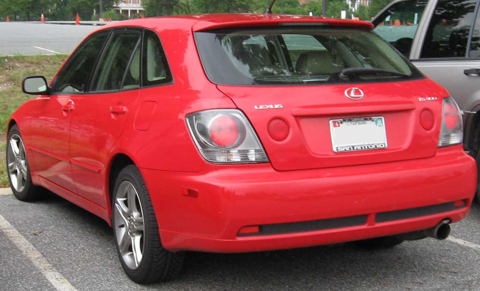 Lexus IS300 photographed in USA.